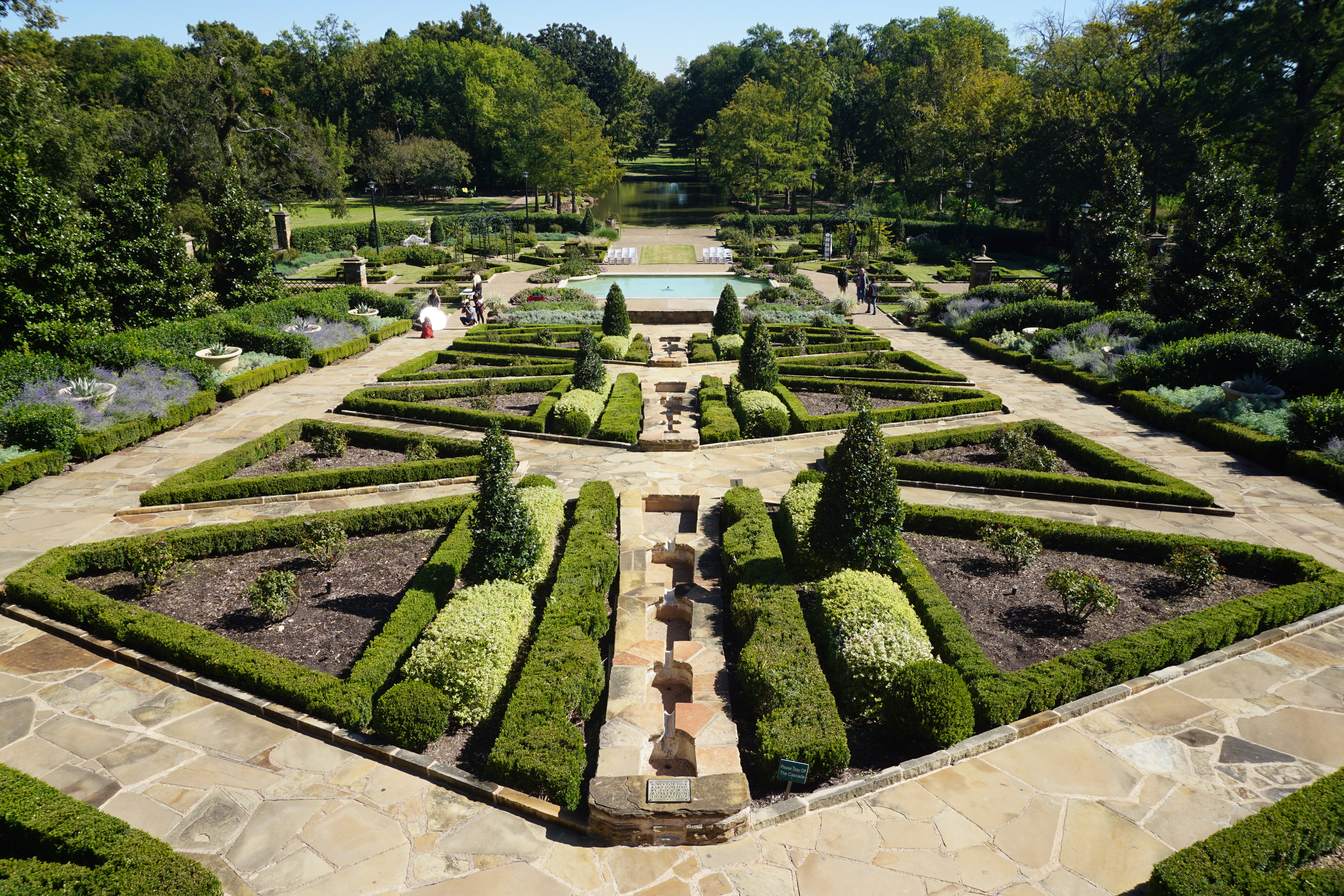 The Rose Ramp and the Lower Rose Garden at the Fort Worth Botanic Garden in Fort Worth, Texas (United States).